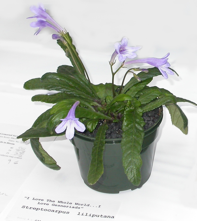 Streptocarpus lilliputana on show